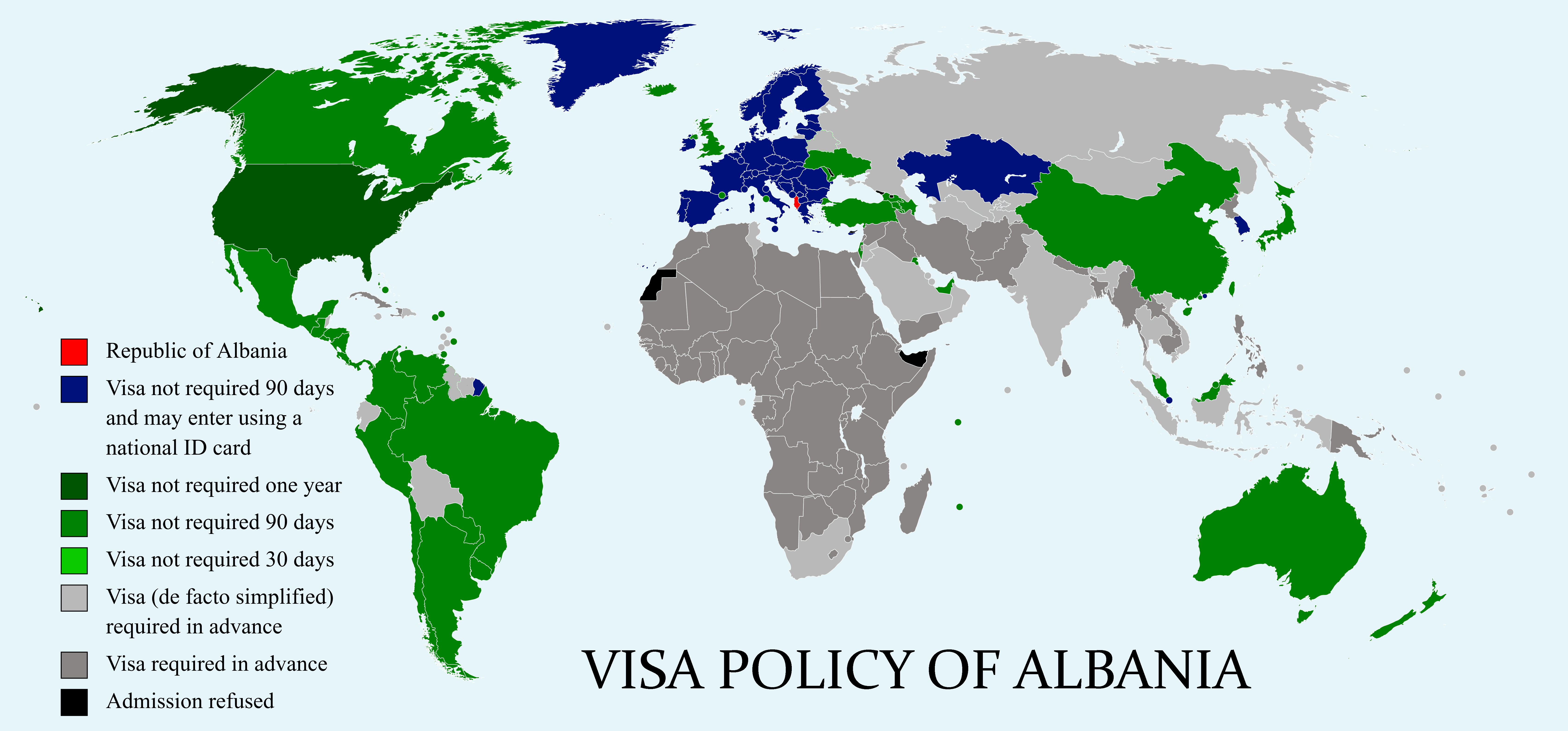 Visa policy of Albania Albania Visa-free